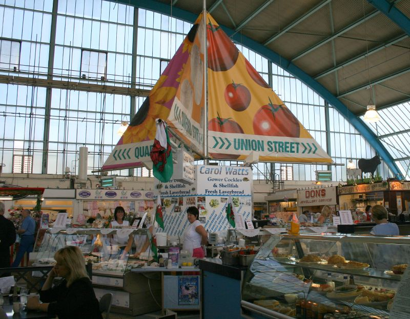 Swansea Markey, Swansea, Wales